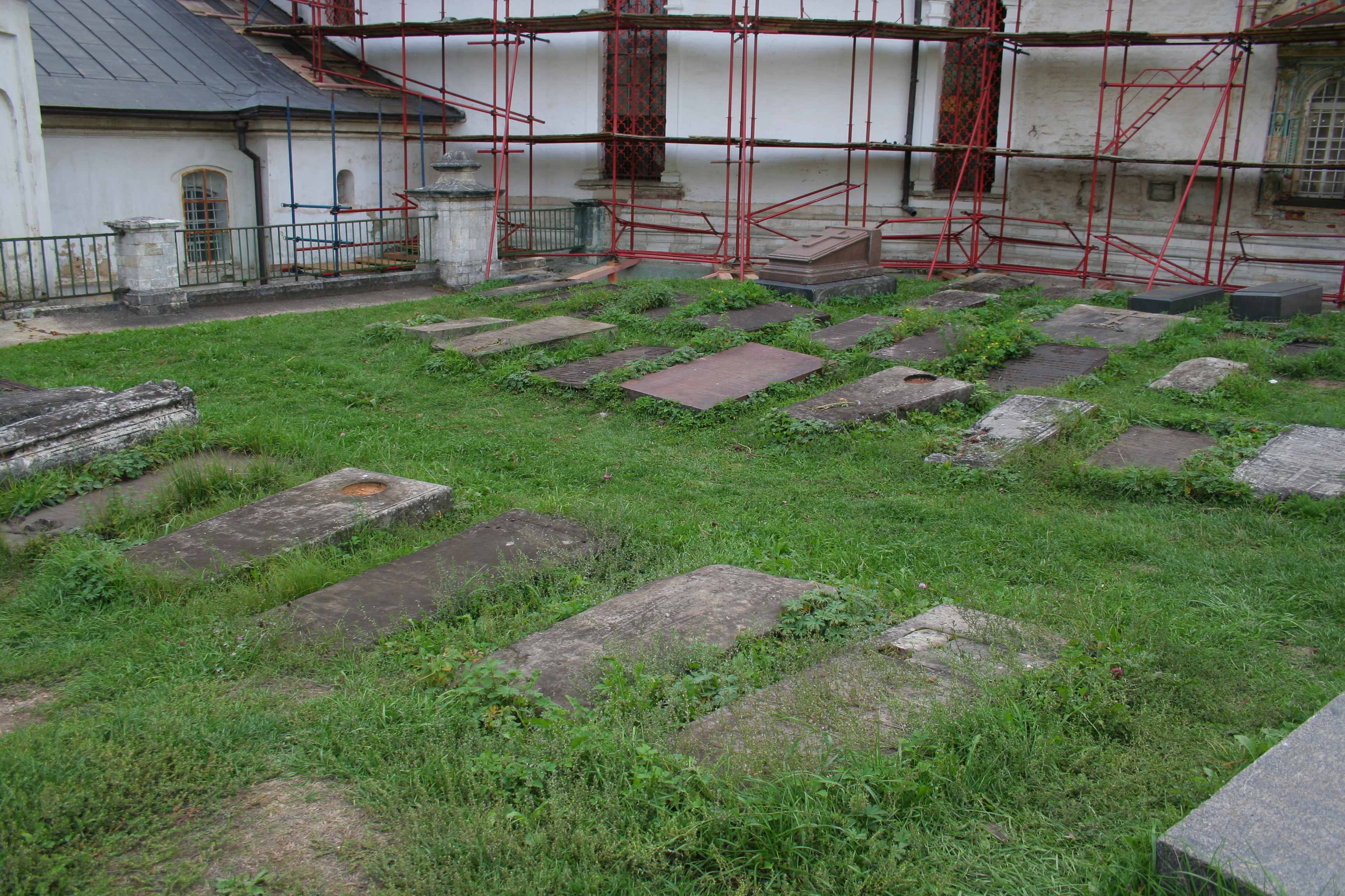 New Jerusalem Monastery in Istra, Russia. An old graveyard of the monastery.